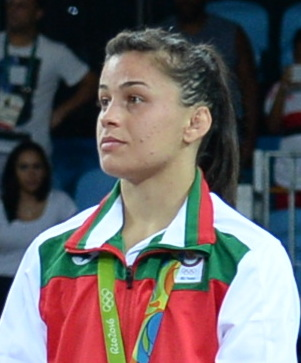 2016 Summer Olympics, Women's Freestyle Wrestling 48 kg awarding ceremony